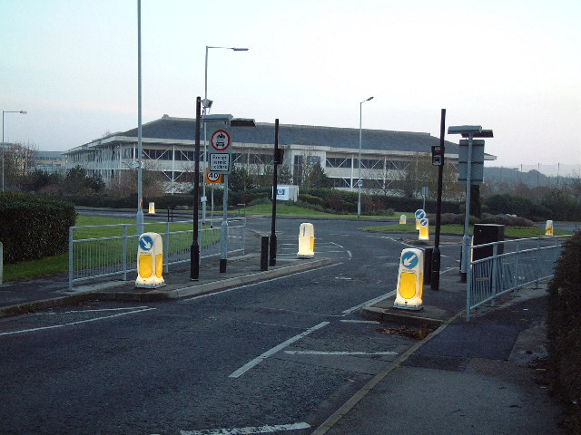 Amen Corner Business Park. The Hewlett Parkard building at Amen Corner is seen through a forest of street furniture.